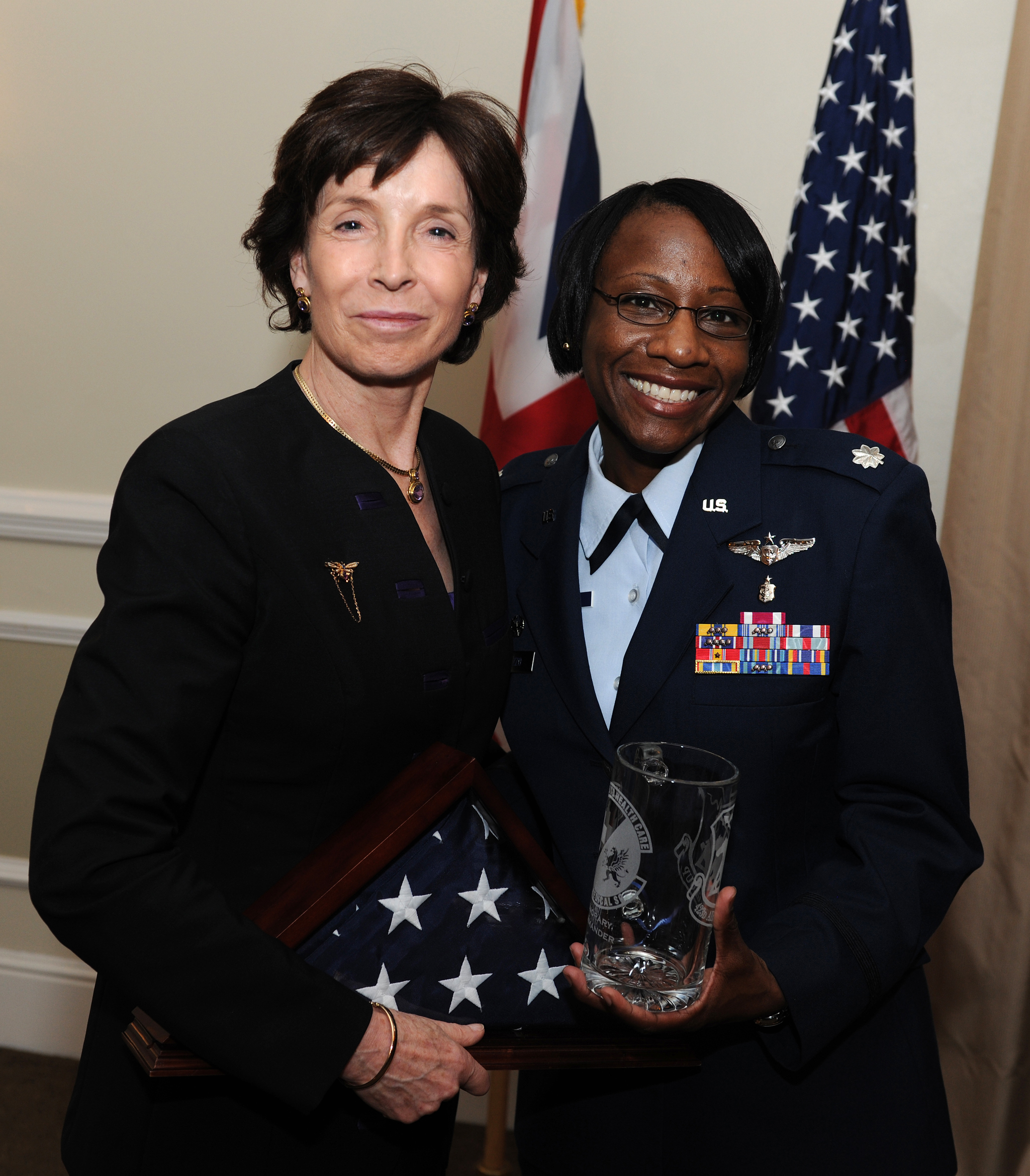 Honorary commander induction RAF ALCONBURY, United Kingdom - Lady Mary Archer is welcomed by Lt. Col. Cherron Galluzzo as the honorary 423rd Medical Squadron commander during an induction ceremony here Oct. 7. (U.S. Air Force photo by Tech. Sgt. John Barton) Tags: 501st combat support wing Photo by: Tech. Sgt. John Barton | VIRIN: 111007-F-FW394-038.JPG